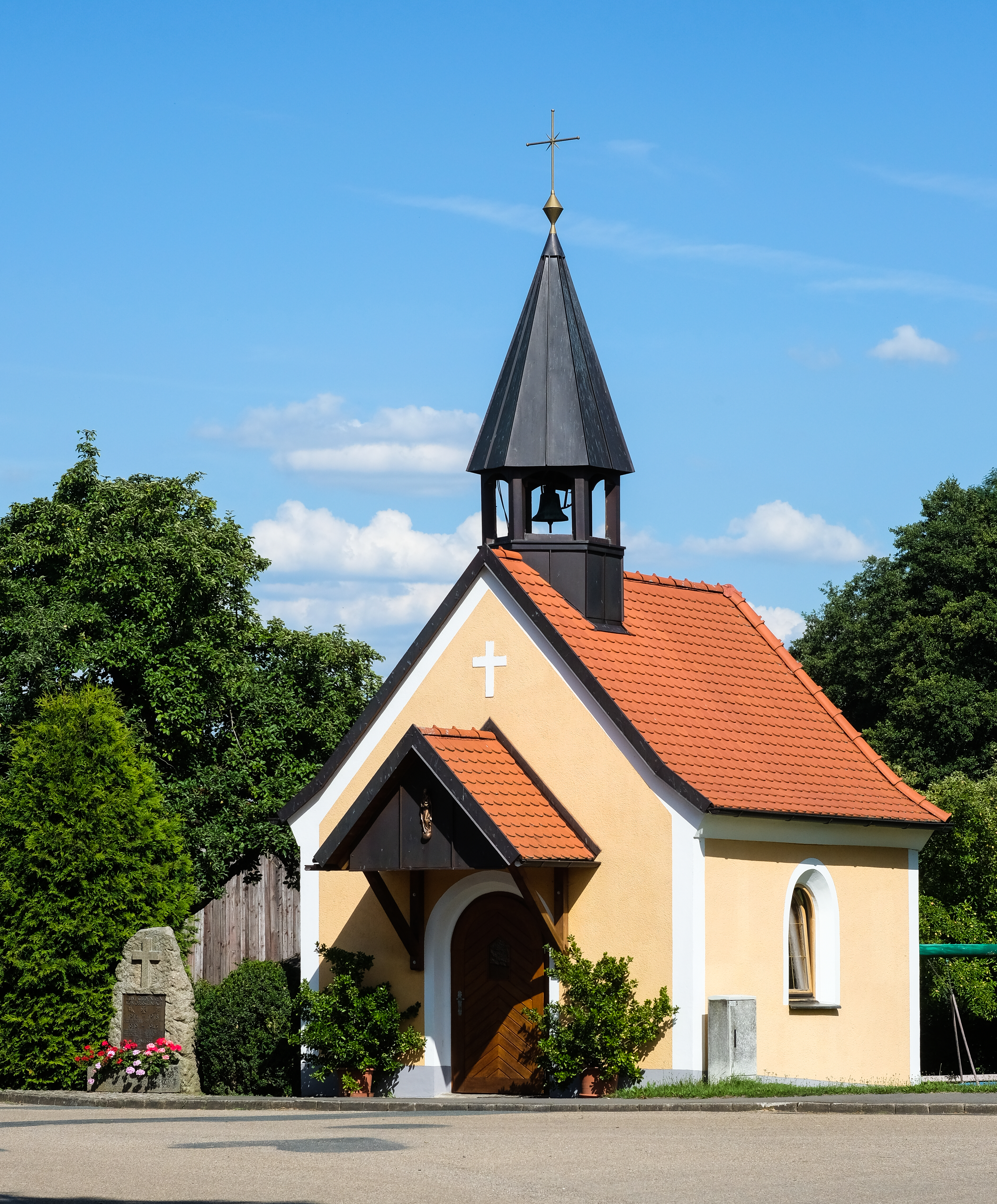 Chapel Obersteinbach, Hirschau-Obersteinbach, district Amberg-Sulzbach, Bavaria, Germany